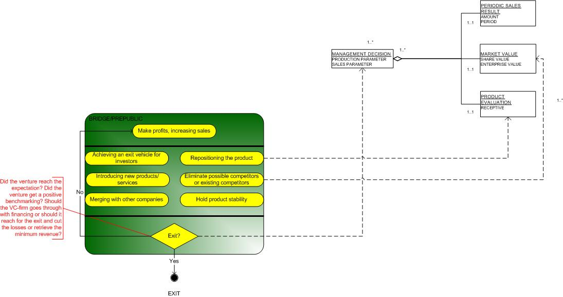 Process data model E